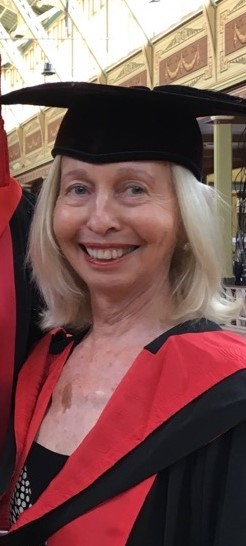 Collette Tayler, Australian academic and researcher, and expert in Early Childhood Education.